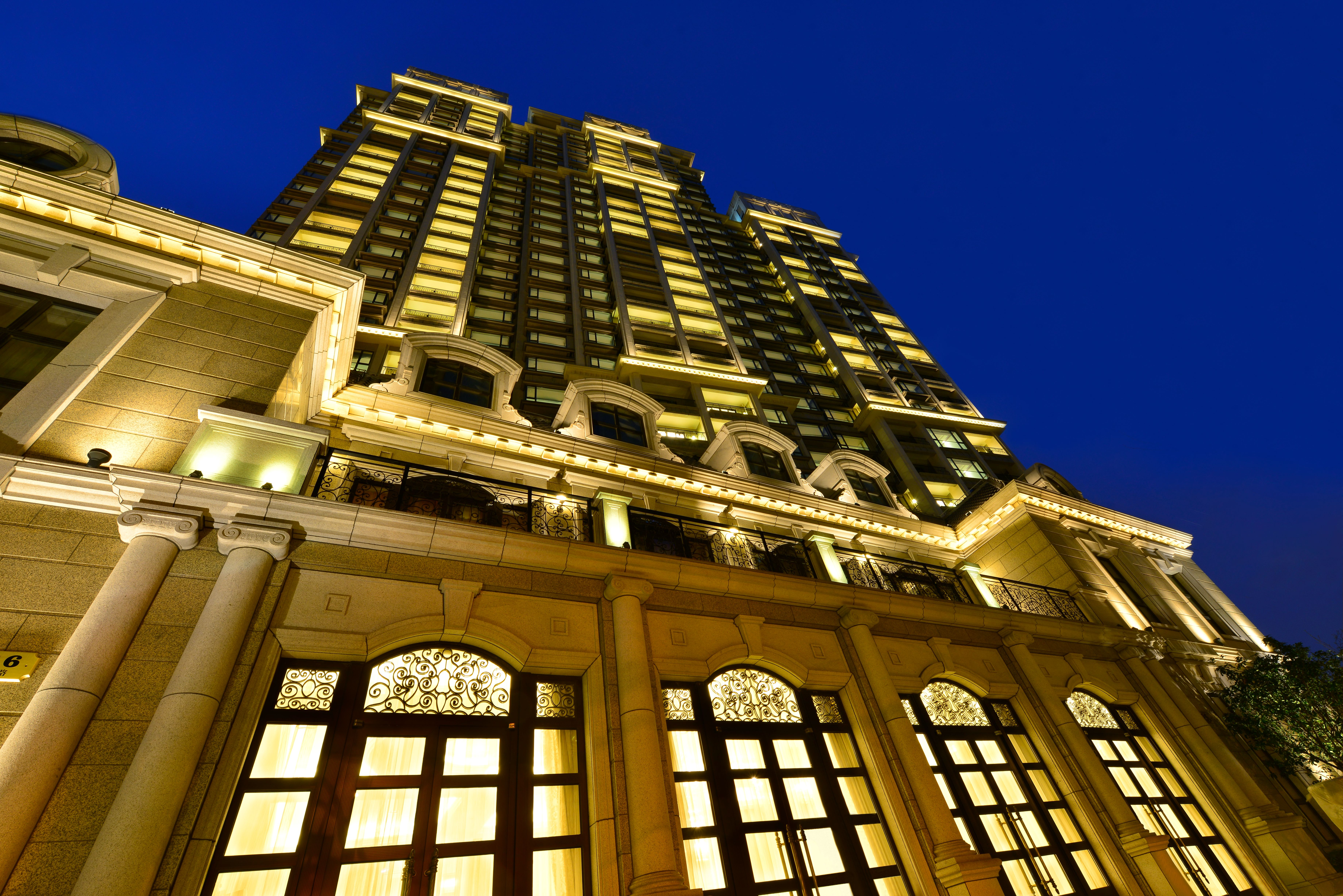 The Palace 嘉御庭